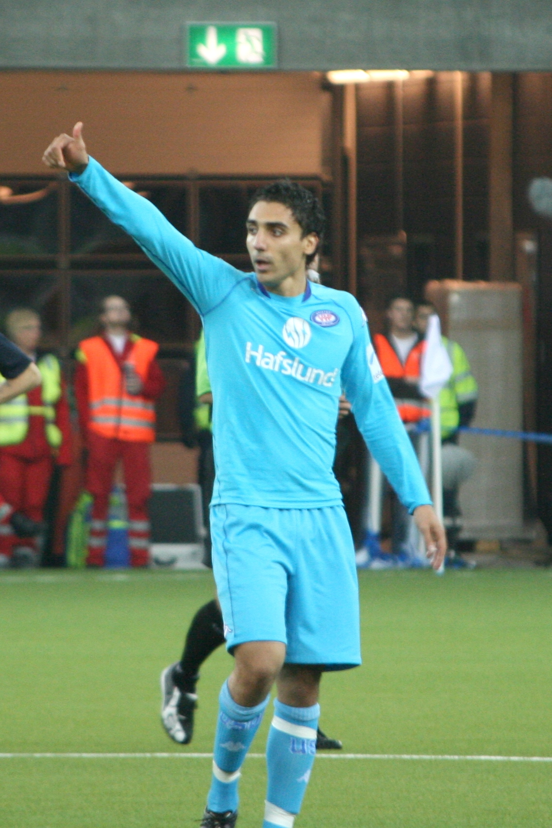 Norwegian footballer Mohammed Abdellaoue.